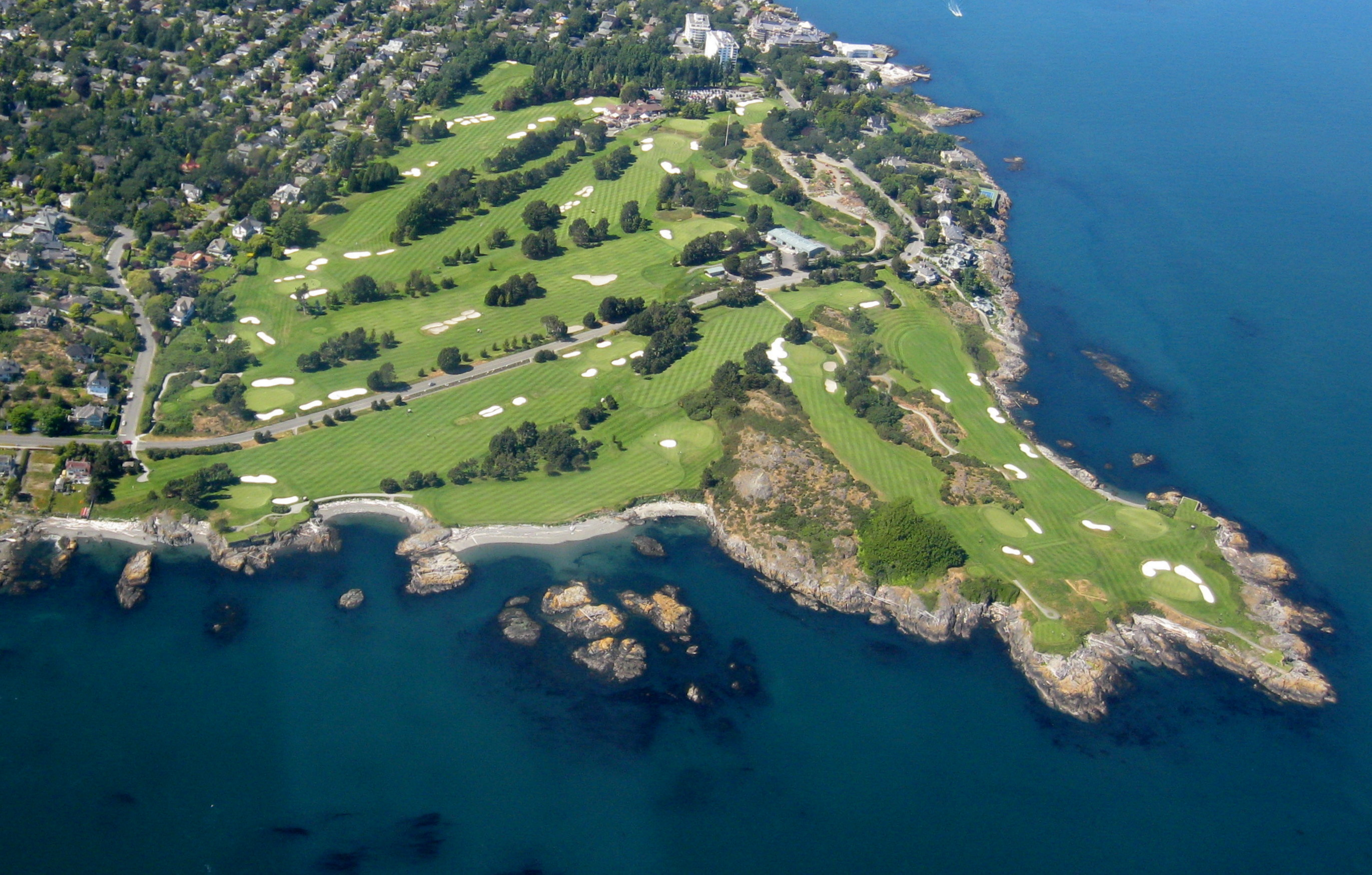 Victoria golf course. MORE INFO IN PANORAMIO/DESCRIPTION